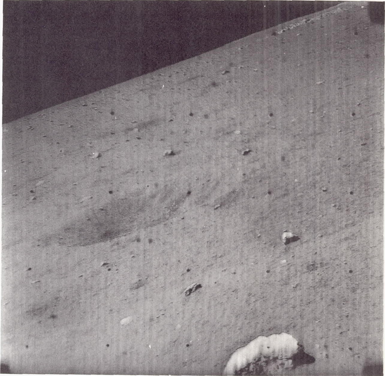 Lunar surface imaged by Surveyor 1. Figure 7-41 of NASA SP-184, caption reads: FIGURE 7-41.-The panoramas of the mare areas were quite similar. Although more rocks, hills, and steeper slopes occur north of Tycho, the general morphology is similar to that of the maria. (a) Surveyor I (b) Surveyor III (c) Surveyor V (d) Surveyor VI (e) Surveyor VII. A comment in NASA SP-168 on the same photograph reads: "A surface born in violence!" exclaimed RALPH B. BALDWIN, a noted astronomer, referring to the lunar scene above. "Prominently displayed on this Surveyor view of a mare is a small crater, perhaps 3 meters across, dug by the impact of a small meteorite. Scattered essentially at random over the surface are numerous rocks ejected from other, larger craters. "In the distance," Baldwin pointed out, "is a strange wall of rocks. Study shows that these rocks lie, in part, on the near wall of a crater some hundreds of meters in diameter and, in part, in a sort of raylike extension of the crater wall. They were thrown out when the crater was formed. It is not known whether they represent true subsurface, stony materials, or are pulverized materials consolidated by the shock waves from the violent impact."